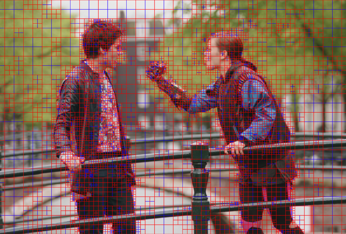 Visualisation of the macroblock structure in a frame at position 0:32 (frame 00808) from a VP9 encoding of the short open movie "Tears of Steel"